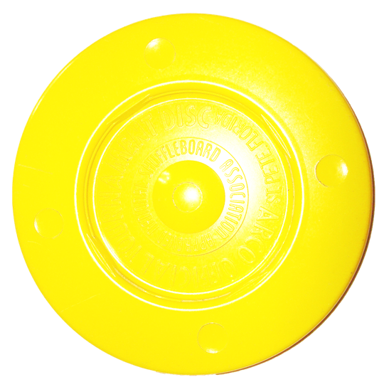 Disco amarelo de shuffleboard